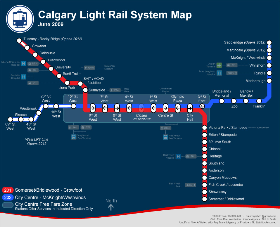 Map of Calgary's LRT network including future approved extensions.